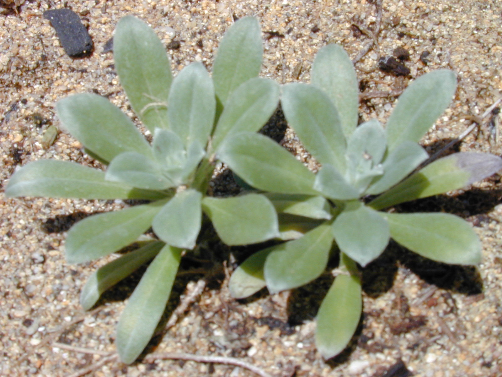 Heliotropium anomalum var. argenteum (rosettes). Location: Maui, Kanaha Beach